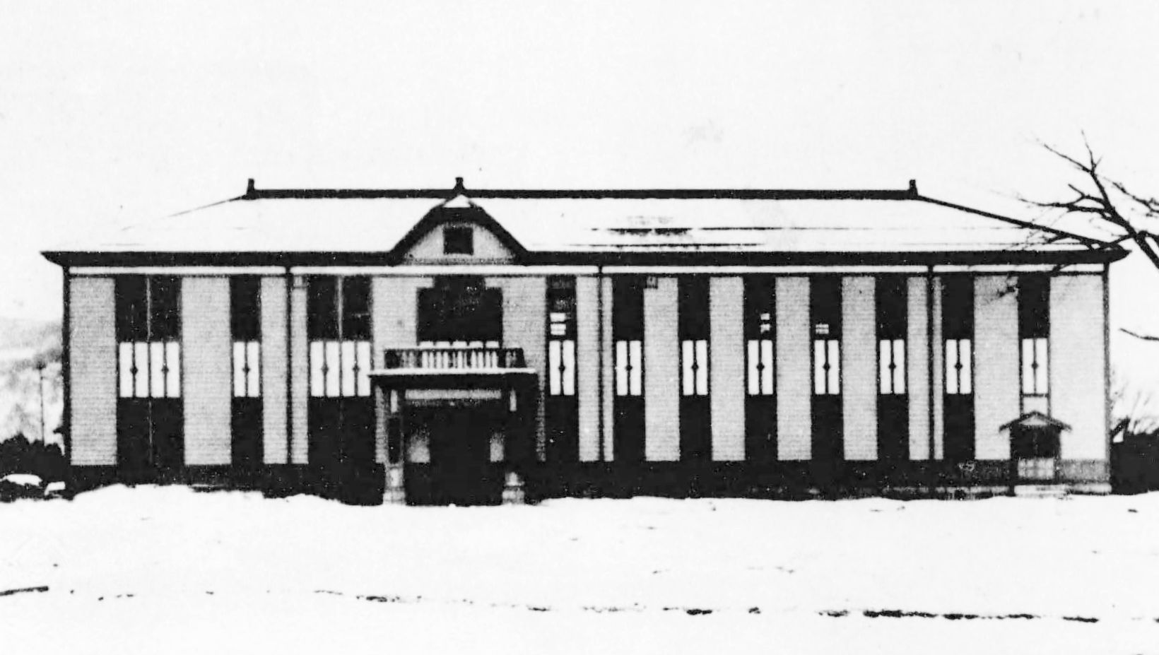 Chiisagata district office.